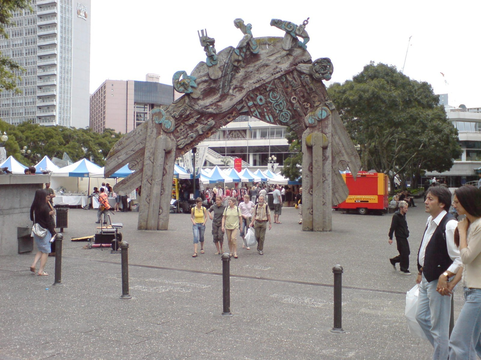 Wahanui (entry gate) by Māori sculptor and painter Selwyn Muru. The Wahanui combines Maori elements with strong Polynesian influences and forms a symbolic entrance to Aotea Square in Auckland City, New Zealand, seen here on a market Saturday. Looking towards the west into the square from Queen Street.